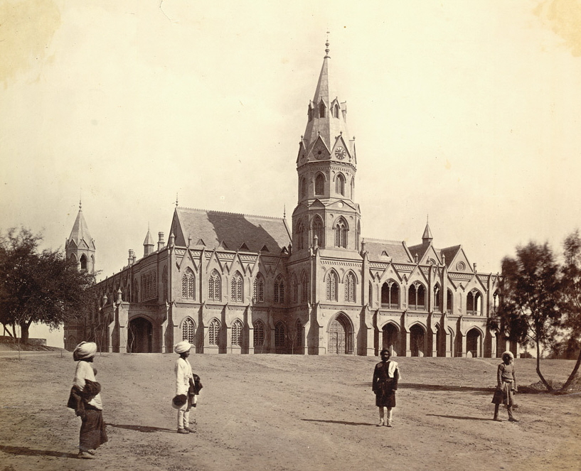 Government College, Lahore. Photograph by an unknown photographer in the 1880s, part of the Dunlop Smith Collection: Sir Charles Aitchison Album of Views in India and Burma. A general view of the gothic Government College at Lahore (now in Pakistan), completed in 1877. Lahore on the Ravi river, has been the provincial capital of the Punjab for centuries, and has had several periods of development under Mughal, Sikh, and British rule, all of which left it embellished with architecture. It achieved its greatest glory under the Mughals, from the 1520s to the early 18th century, when it became known as the 'city of gardens'. Oriental and India Office Collection. British Library.